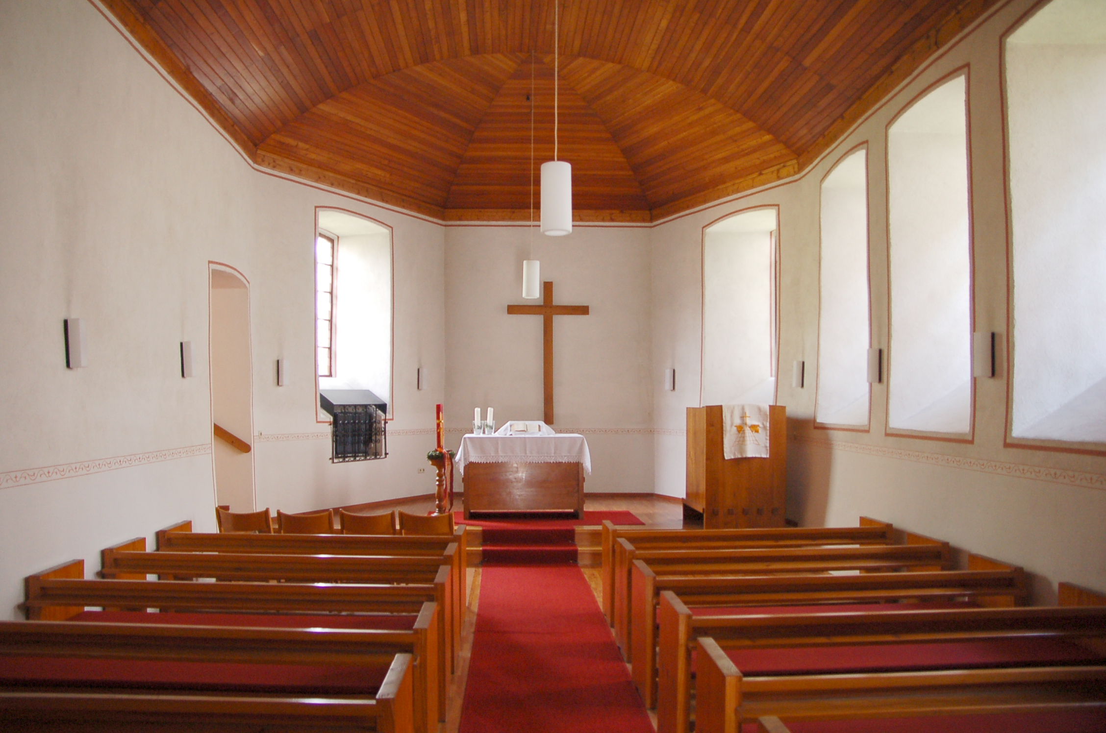 protestant church of Lindenschied